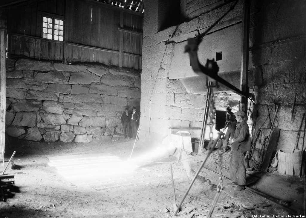 Järnboås blast furnace